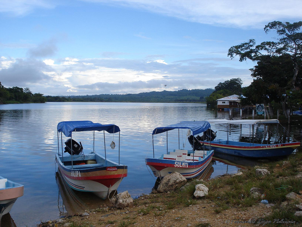 San Pedro River, at the village of El Naranjo, (municipality of La Libertad) , El Petén, Guatemala.